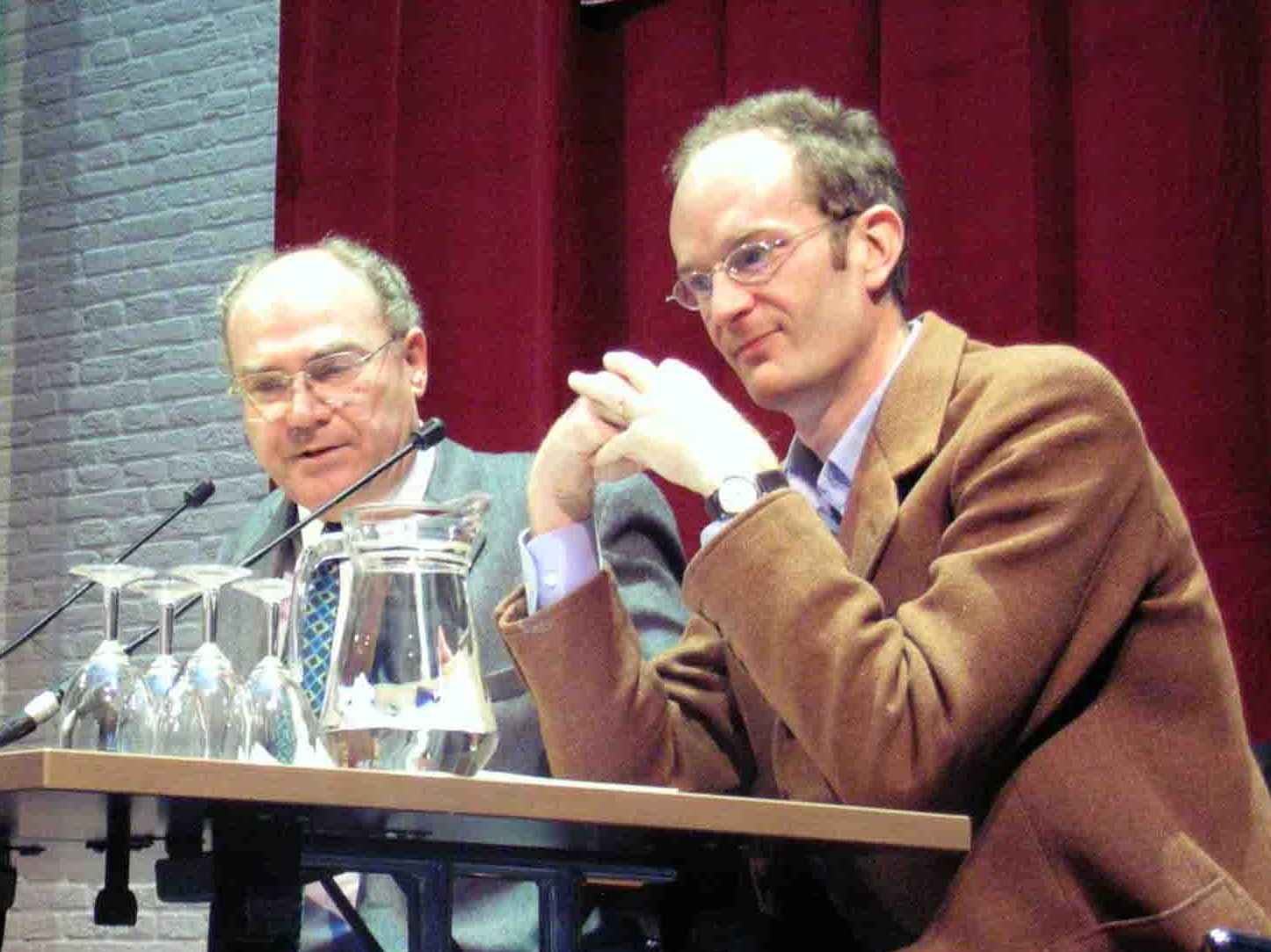 Photograph made and uploaded by Dirk van der Made Giles Scott-Smith at the presentation of the book A turning point in national history